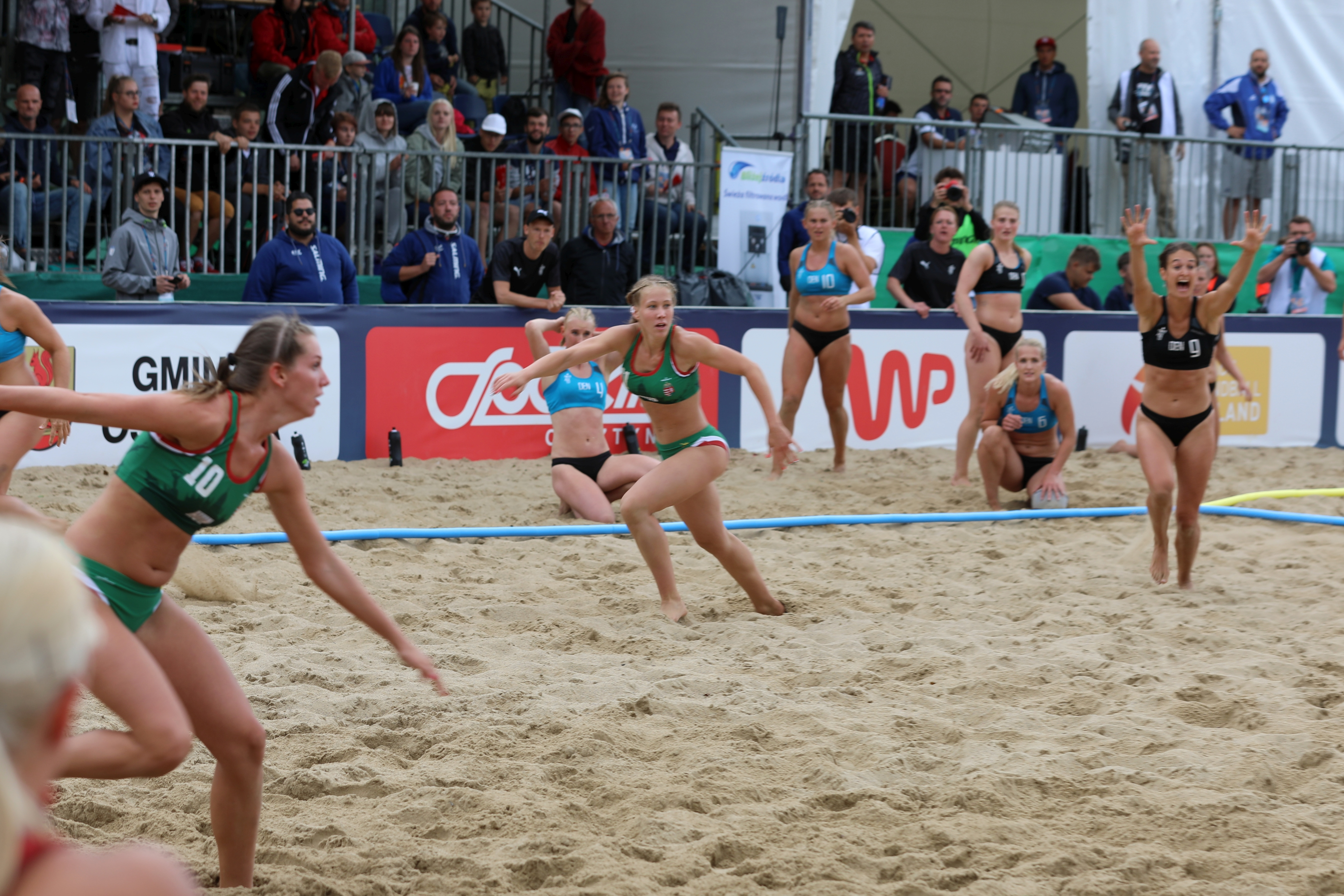 Beach handball Euro; Day 6: 7 July 2019 – Women's Final – Denmark-Hungary 2:0 (18:12, 23:22)